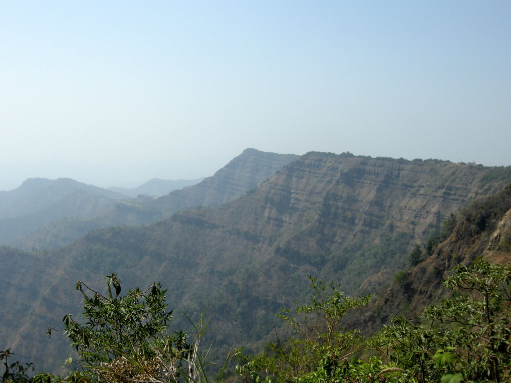 Hmuifang Mountain Side